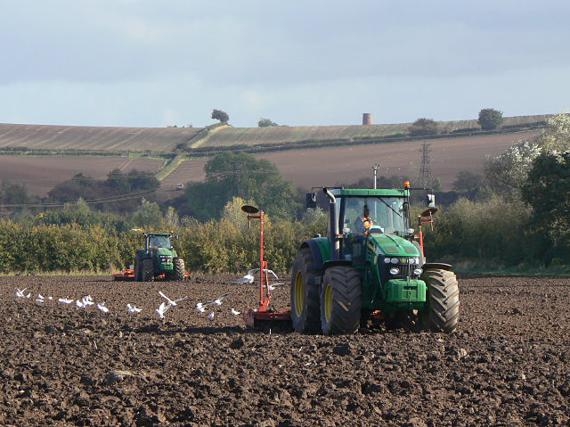 Breaking the soil. This field has been given a heavy plough, and the clods are now being broken down further preparatory to sowing. The gulls are as usual looking to see what gets turned up.